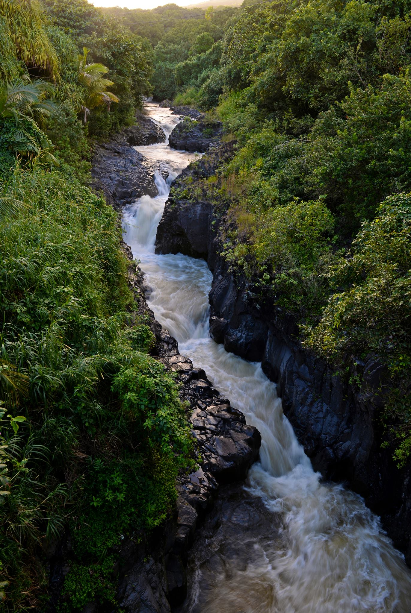 Seven Sacred Pools, Kipahulu, Hawaii, 2015. Photo attribution must go to Steven H. Keys and